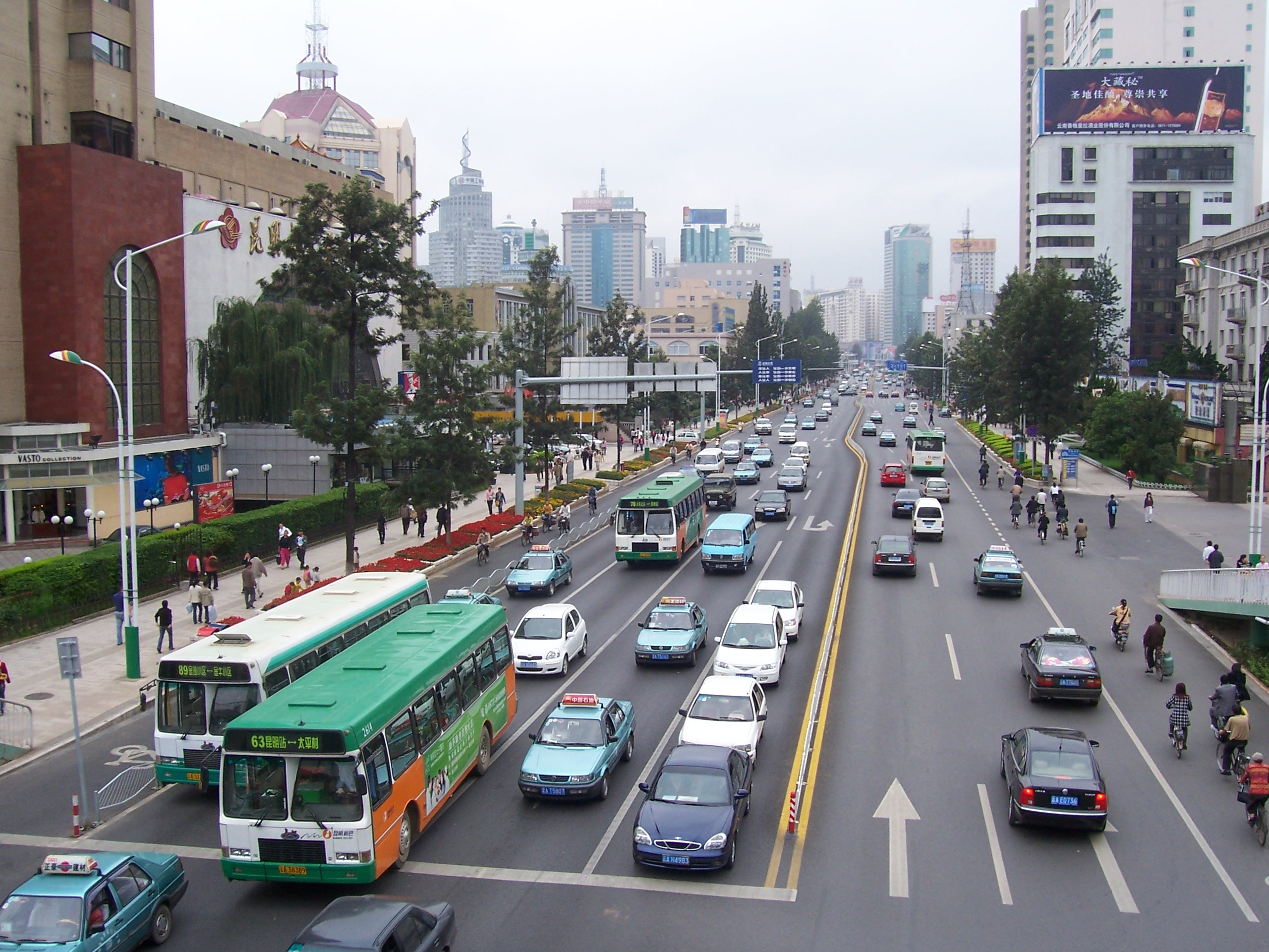 Dongfeng Road, one of Kunming's main arteries. Kunming, Yunnan, China